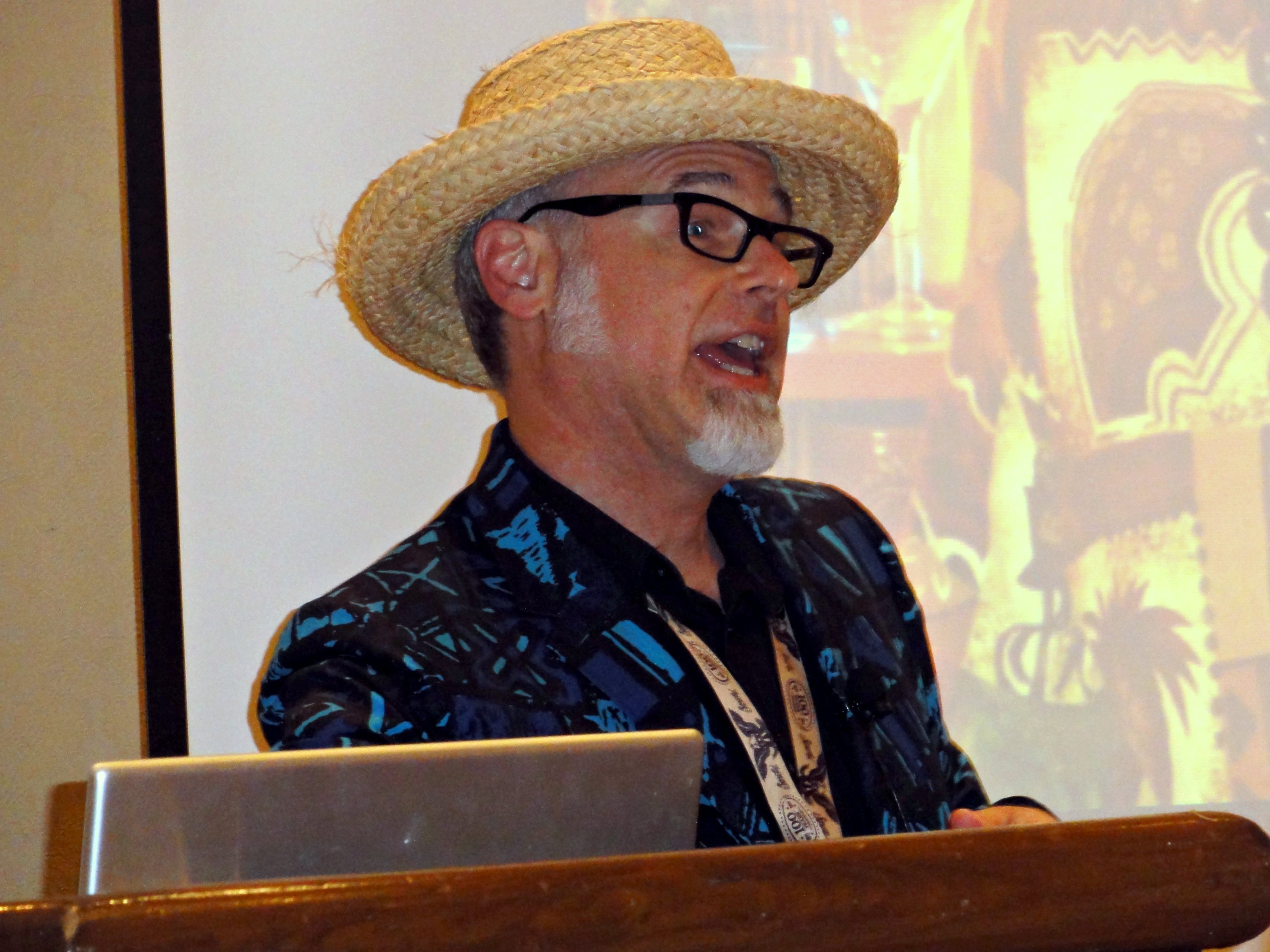 Mixologist Jeff "Beachbum" Berry reveals the truth behind the disputed origins of the Mai Tai. And the truth is more than slightly convoluted!